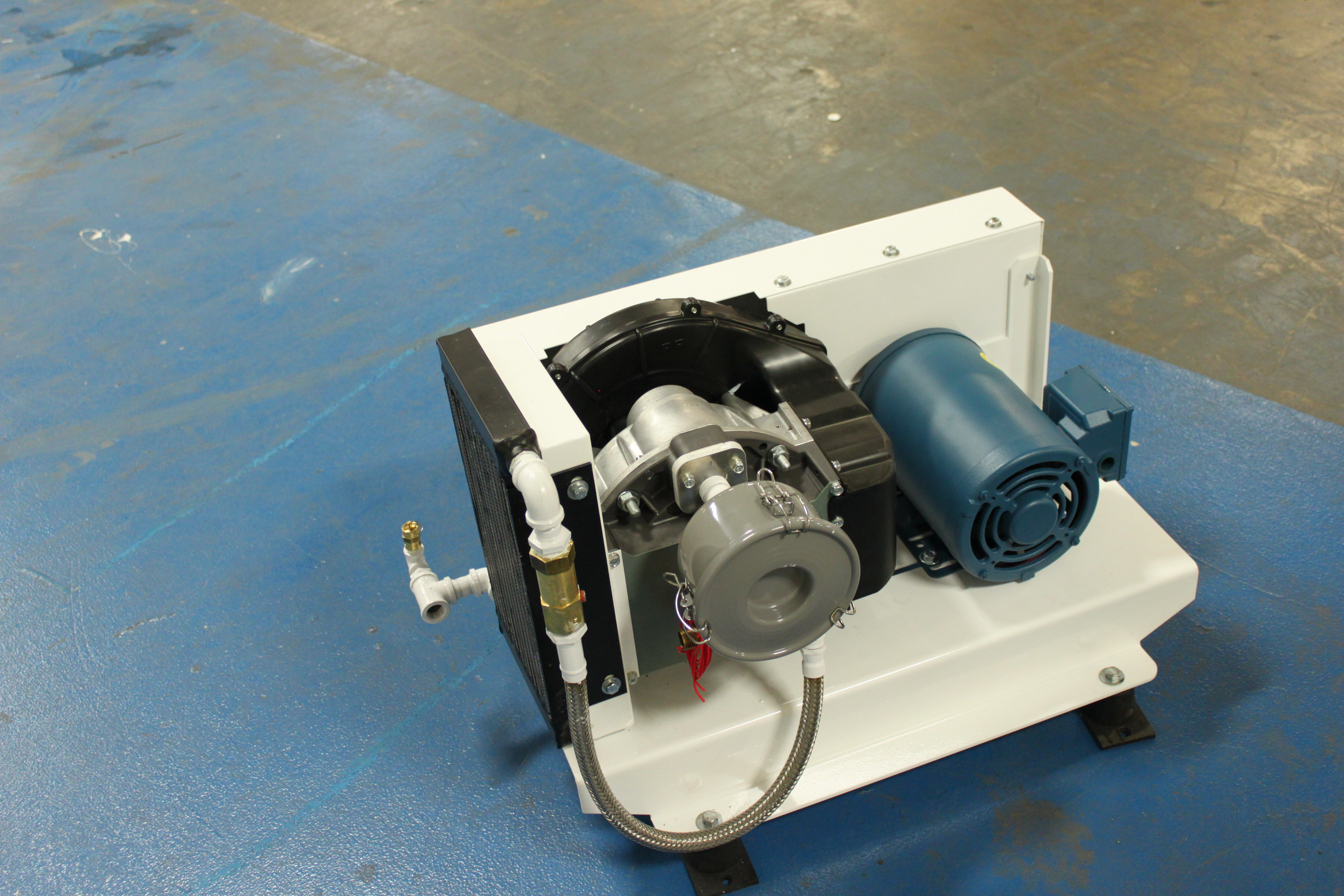 Oilless Scroll Compressor